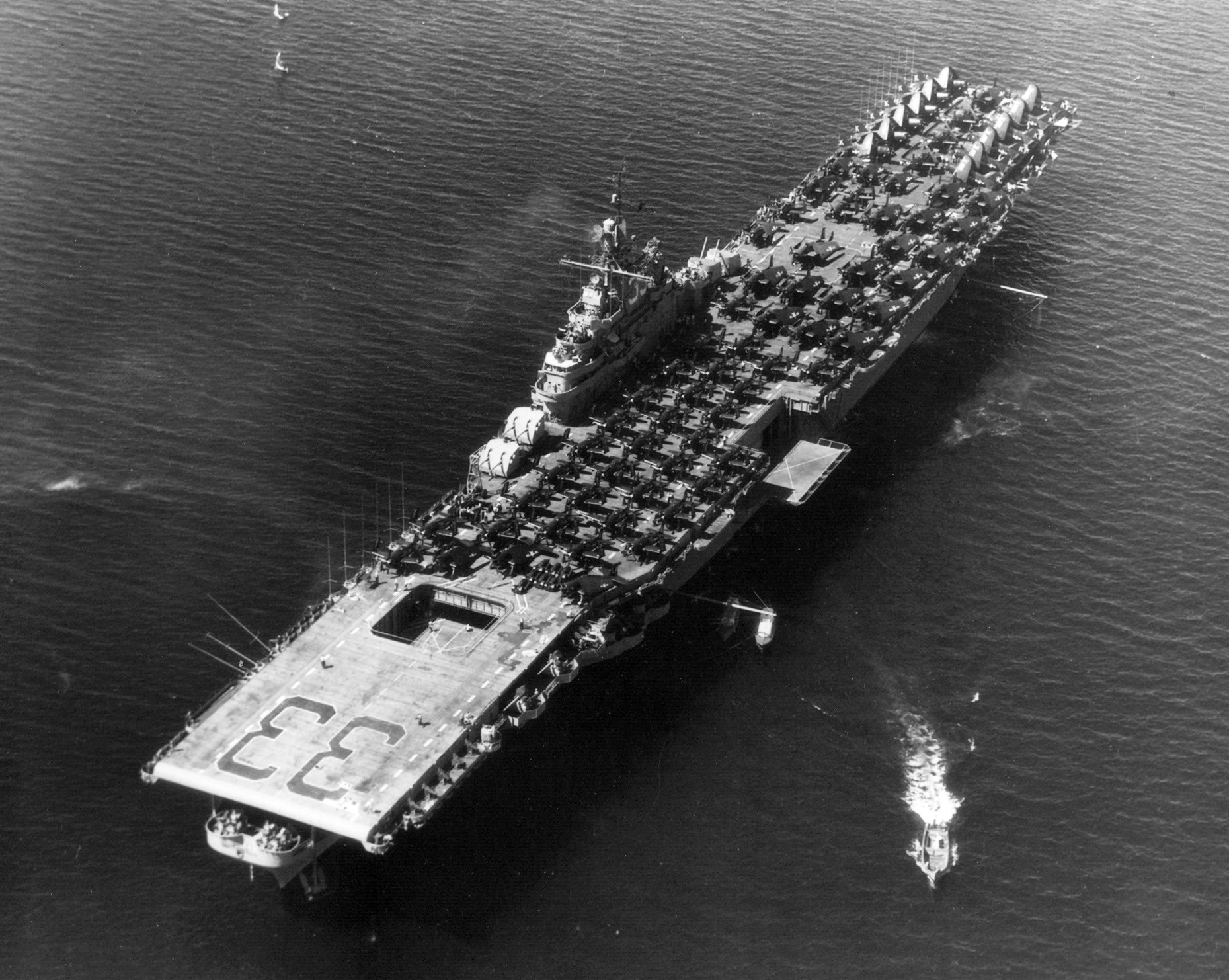 The U.S. Navy aircraft carrier USS Kearsarge (CV-33) at anchor at Argostoli, Greece. Kearsarge, with assigned Carrier Air Group 3 (CVAG-3), was deployed to the Mediterranean Sea from 1 June to 2 October 1948.